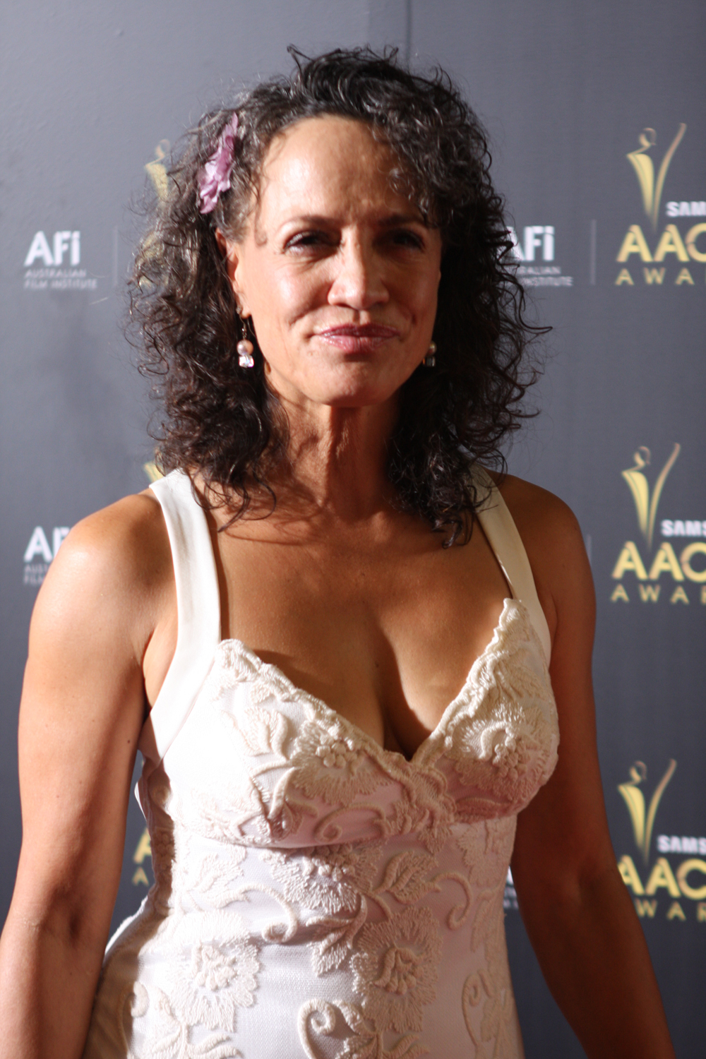 New Zealand actress Rena Owen at the AACTA award 2012, Sydney, Australia